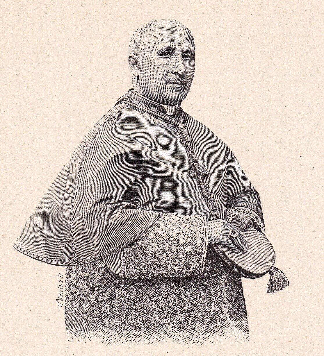 French bishop Joseph Rumeau (1849-1940)